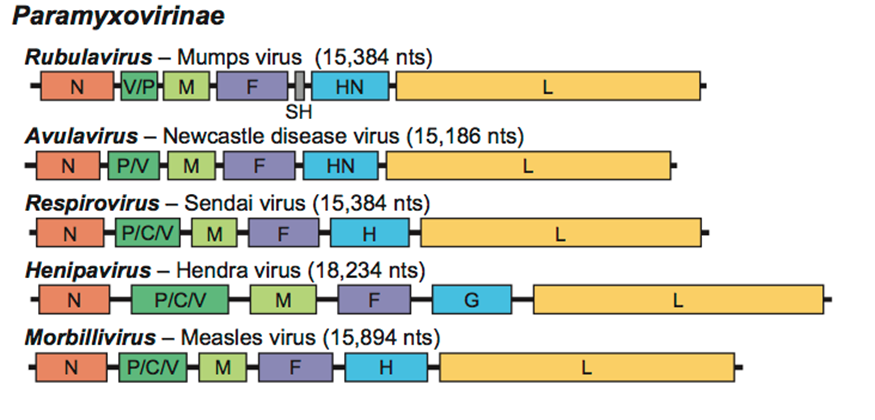 Schematic representation of genomic structure of Paramyxoviruses